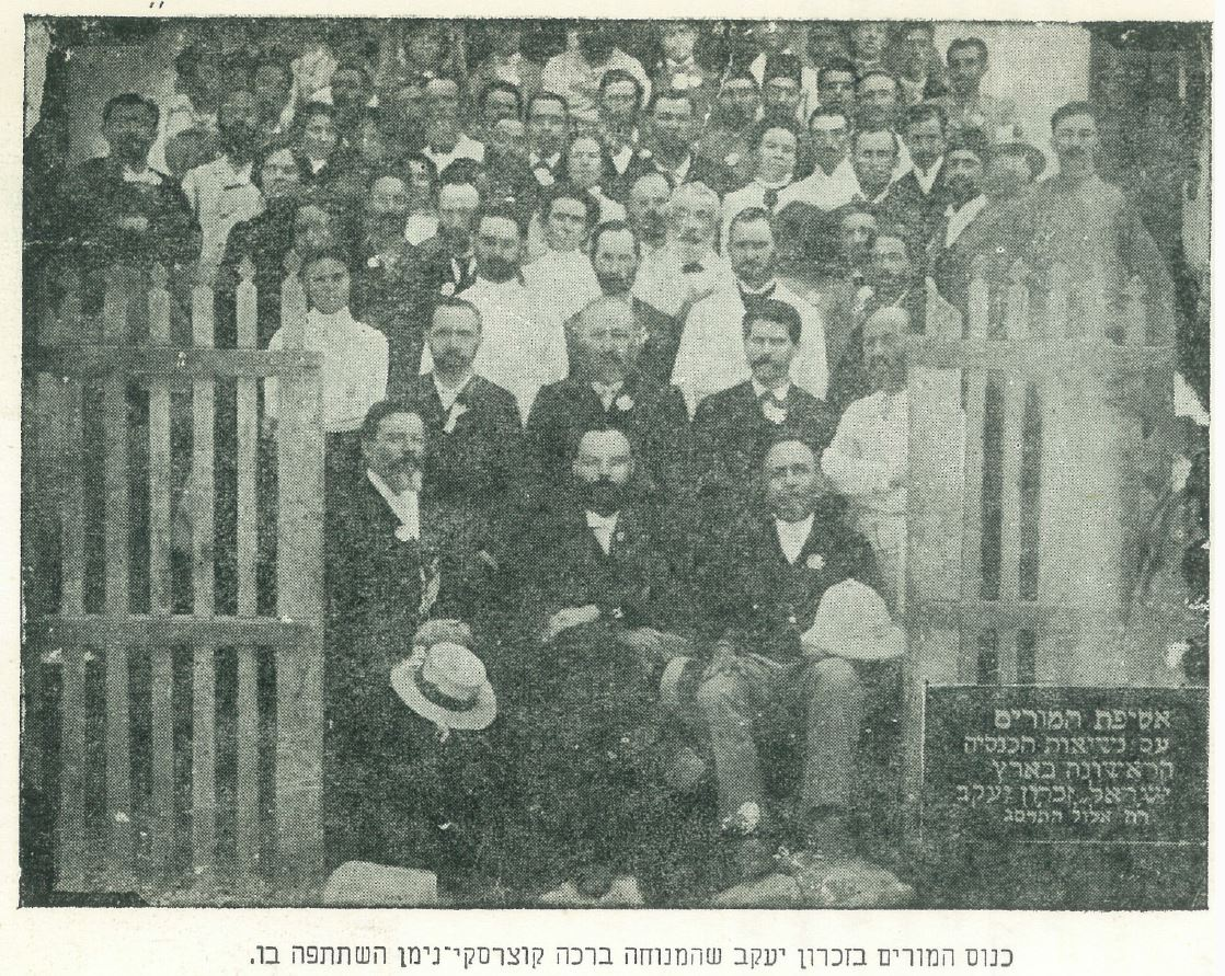 Rabbi Mordechai Niemann and his family